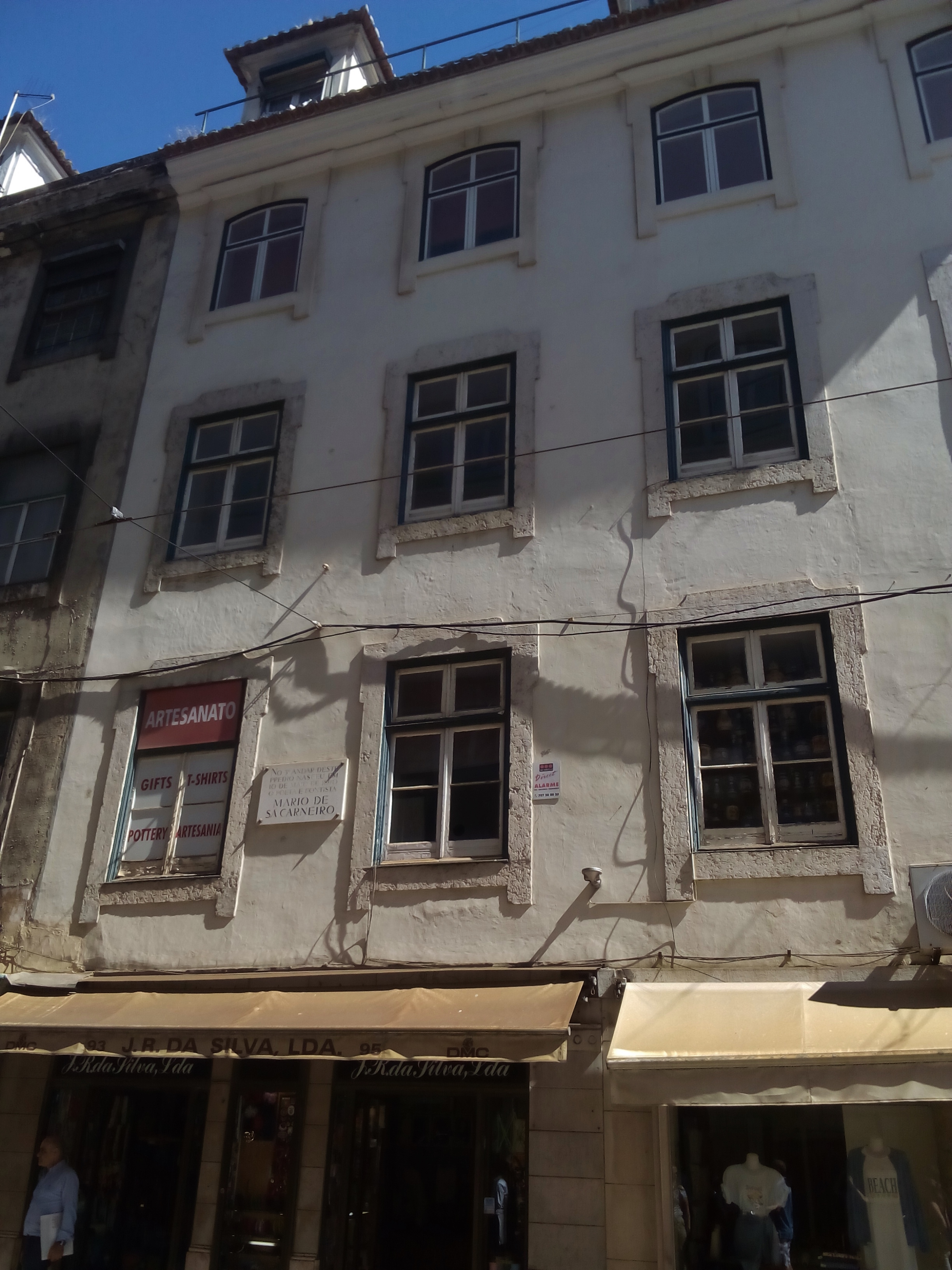 Building in Rua da Conceição, Lisbon, Portugal, where Portuguese author Mário de Sá-Carneiro (1890-1916) was born.